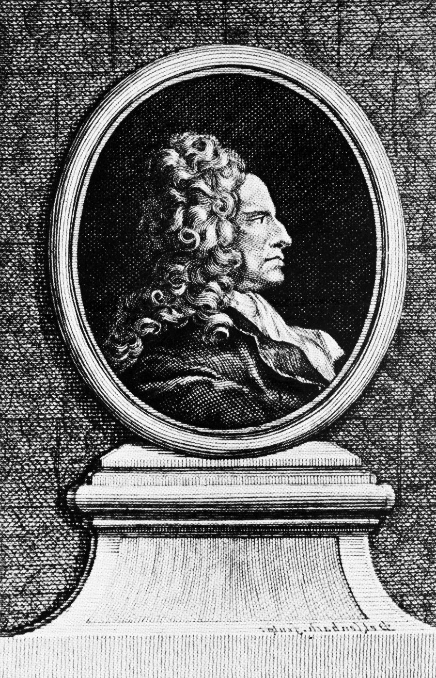 Johann Bernhard Fischer von Erlach (1656-1723)